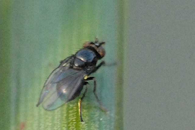 Rachispoda limosa from Commanster, Belgian High Ardennes .